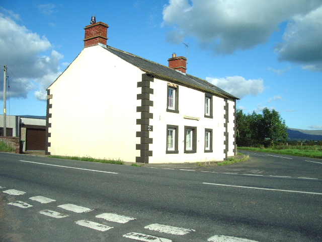 Hunters Cottage. On the OS one inch map of 1940 this house was an Inn.